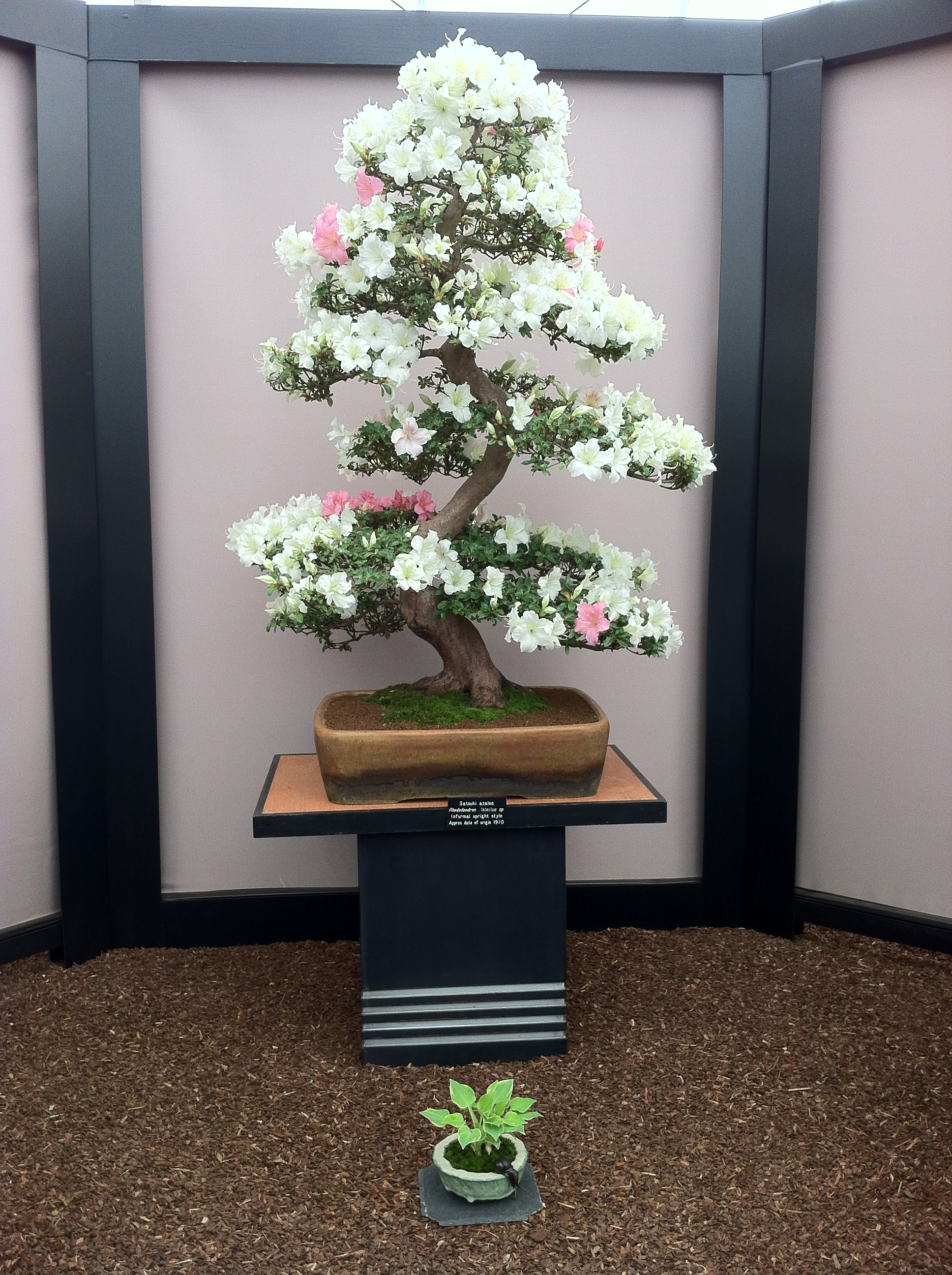 Bonsai at RHS Chelsea Flower Show 2012